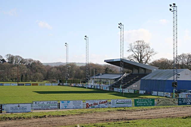 Home of the Cornish All Blacks This is Polson Bridge ground which is home to Launceston Rugby Football Club, now more often known as the Cornish all blacks.